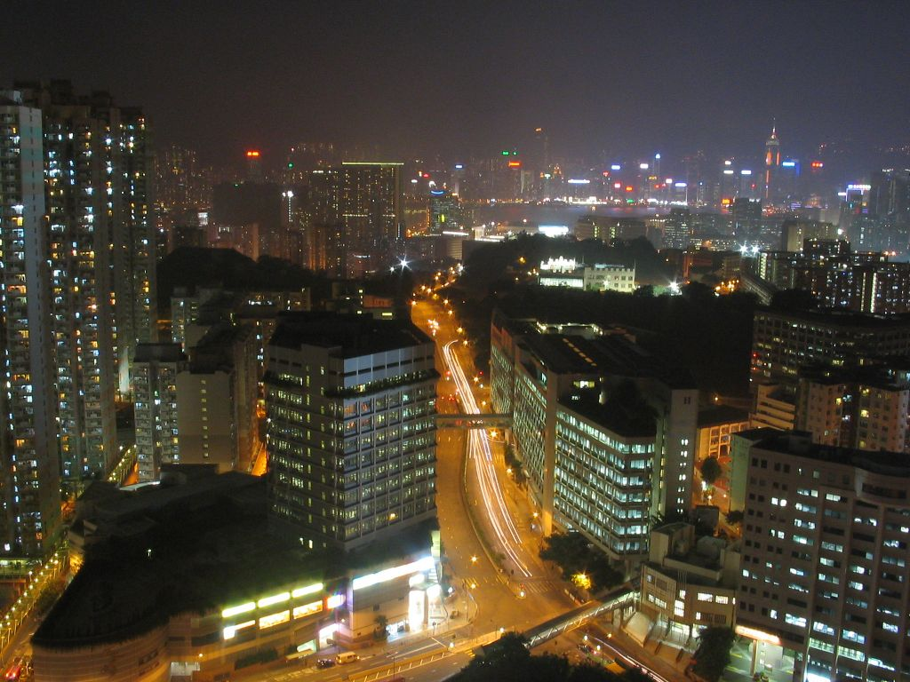 何文田夜景 Night Scene of Ho Man Tin